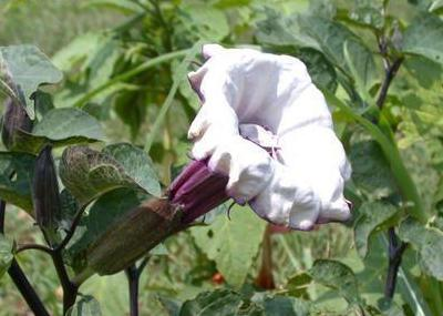 Devil's Trumpet, Horn of Plenty, Downy Thorn Apple (Datura metel 'Double Blackcurrant Swirl')